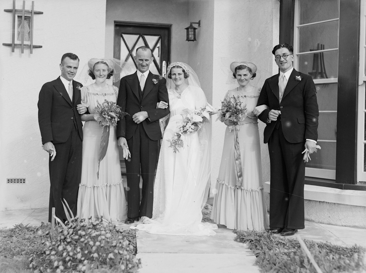 They are posing in front of a house. The men are wearing suits and the women are wearing long formal dresses with headpieces.